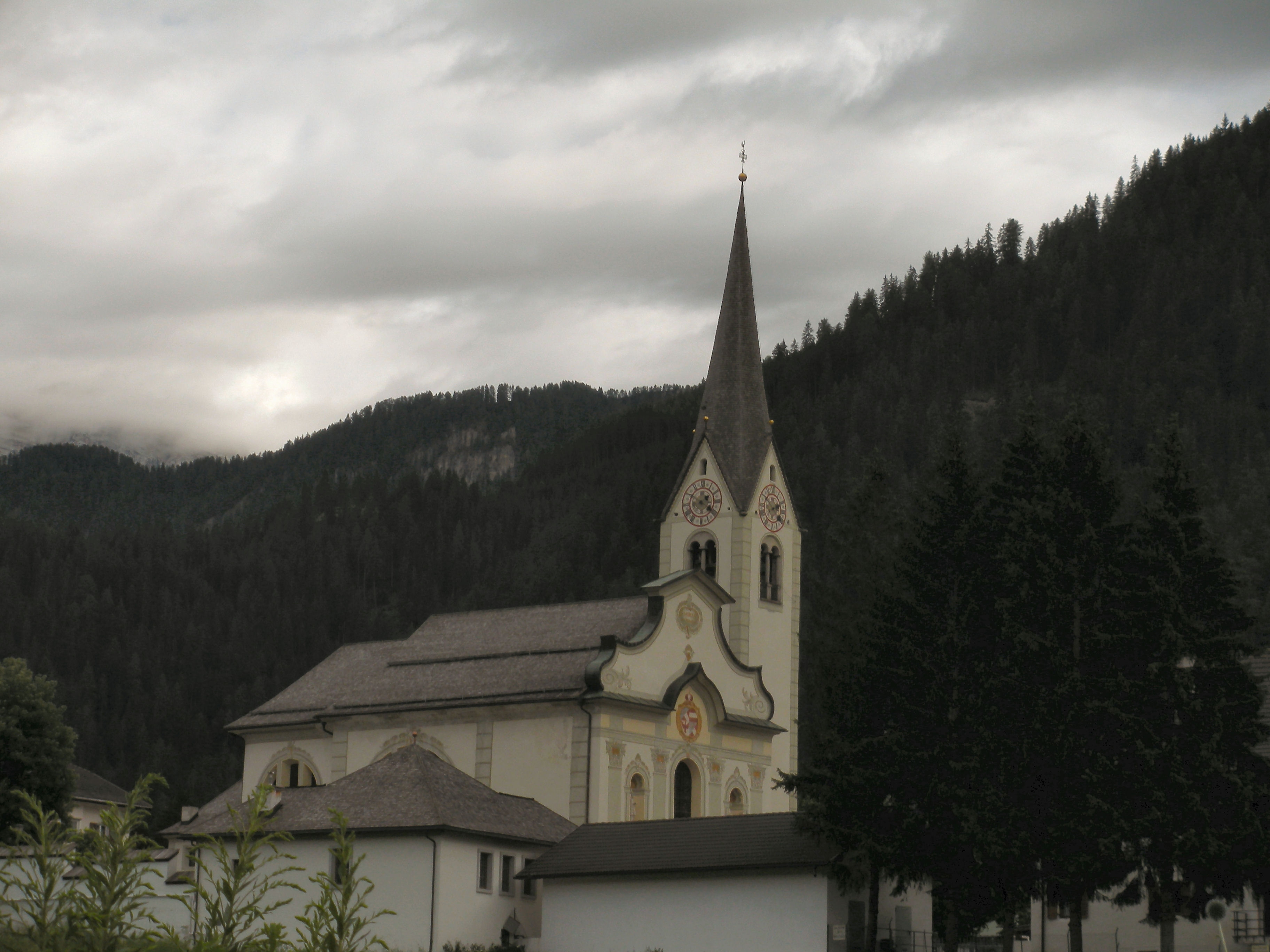 Church of San Vigilio (Enneberg, Sudtirol, Italy)